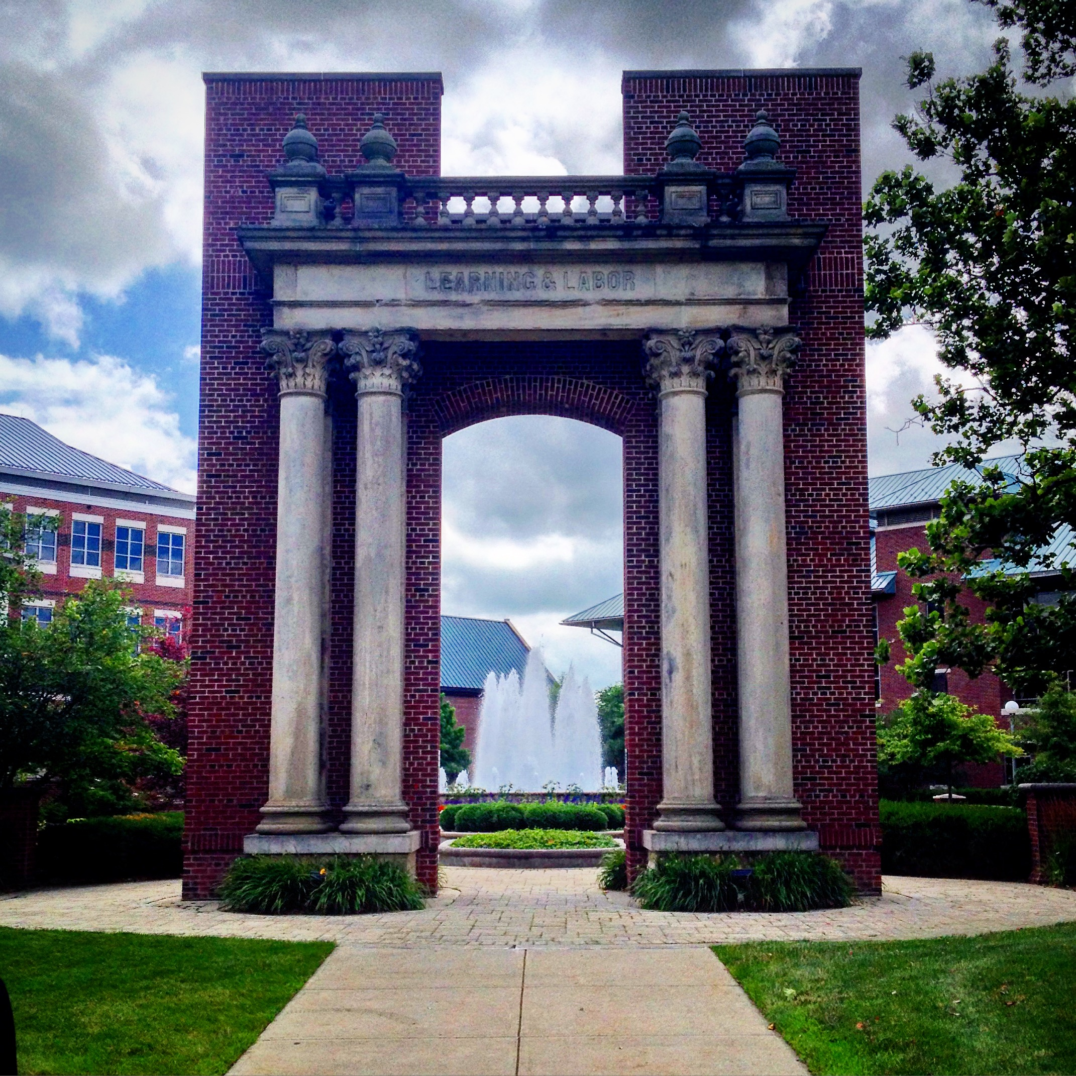 Hallene Gateway found on the campus of the University of Illinois Urbana Champaign